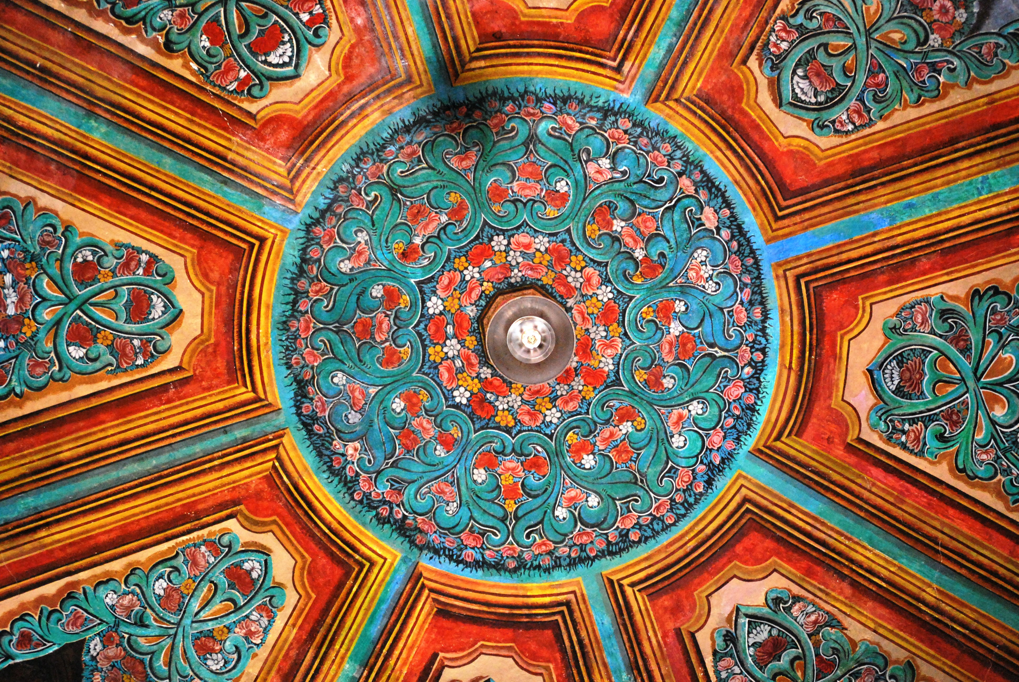 Close up of the painting of the cupola of the Preciosa Sangre de Cristo Church in Teotitlan del Valle, Oaxaca